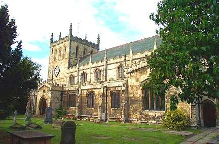 St. Laurence Priory Church Snaith, East Riding of Yorkshire, England.